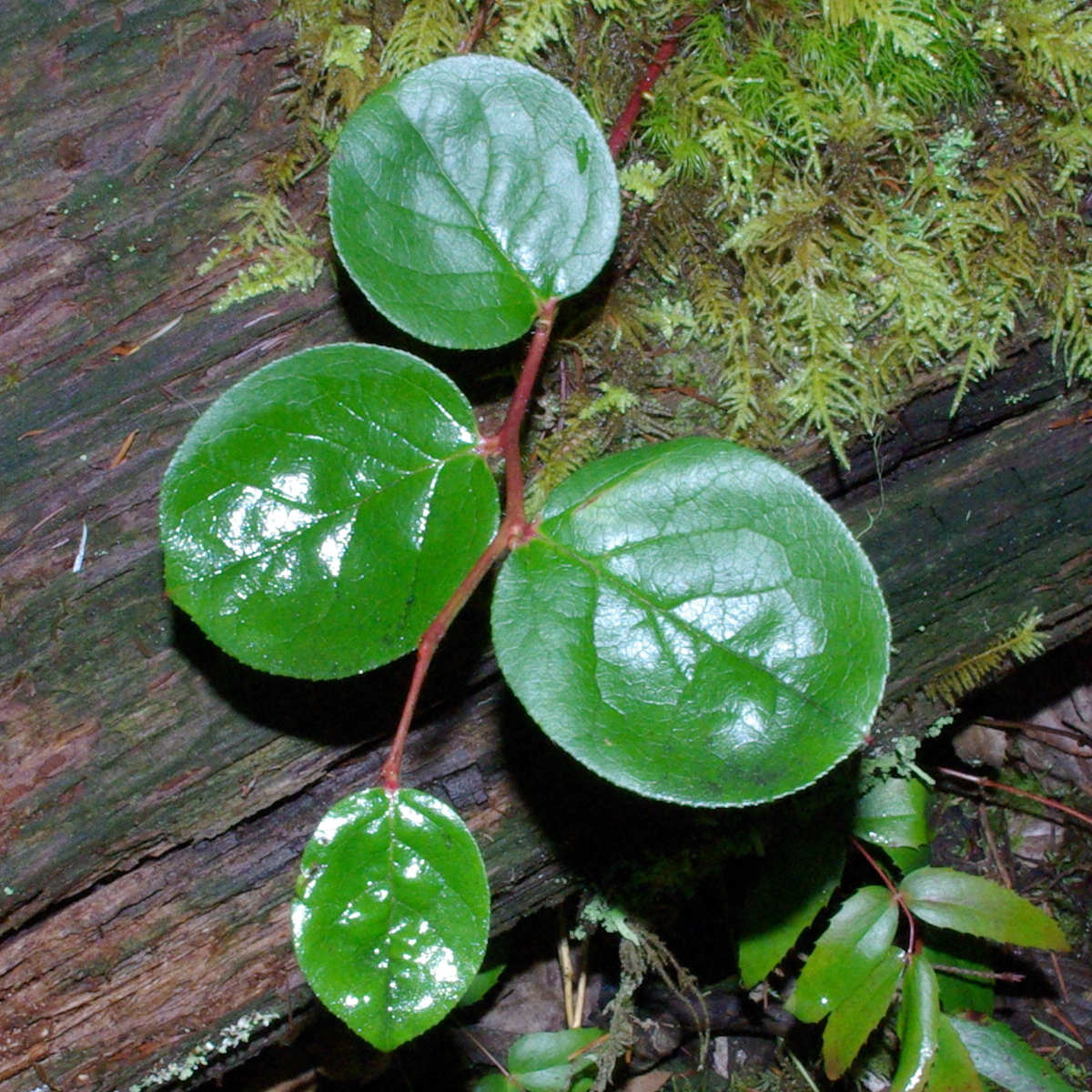 Gaultheria shallon, Parksville, British Columbia. Identification courtesy of the E-Flora BC project